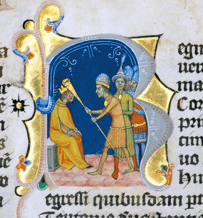 Miniature of the story of Lehel's Horn